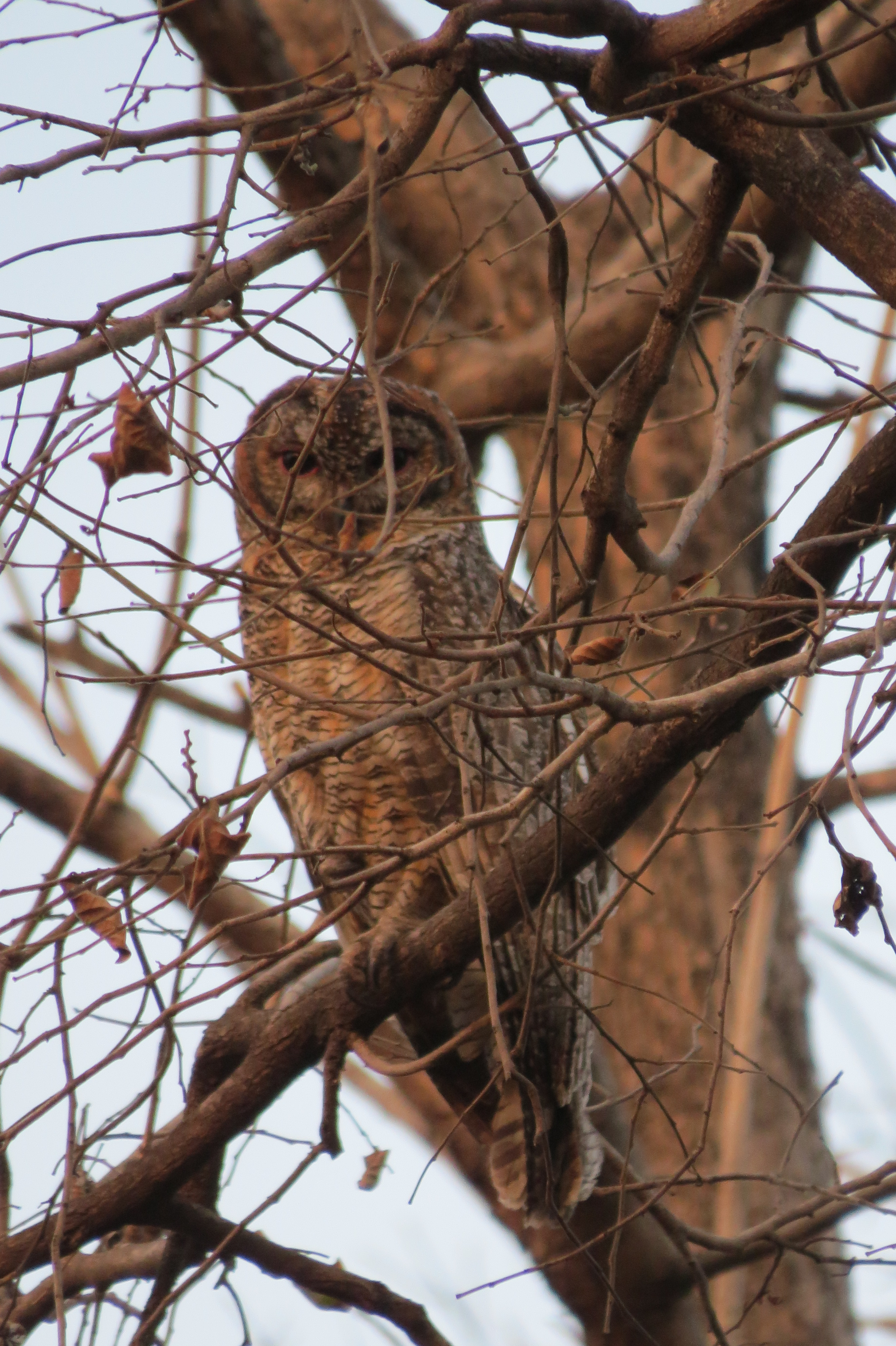 Is that an owl or a piece of wood, Pench, Madhya Pradesh